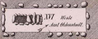 Megalithic tomb Weste 3, Sprockhoff-No 791